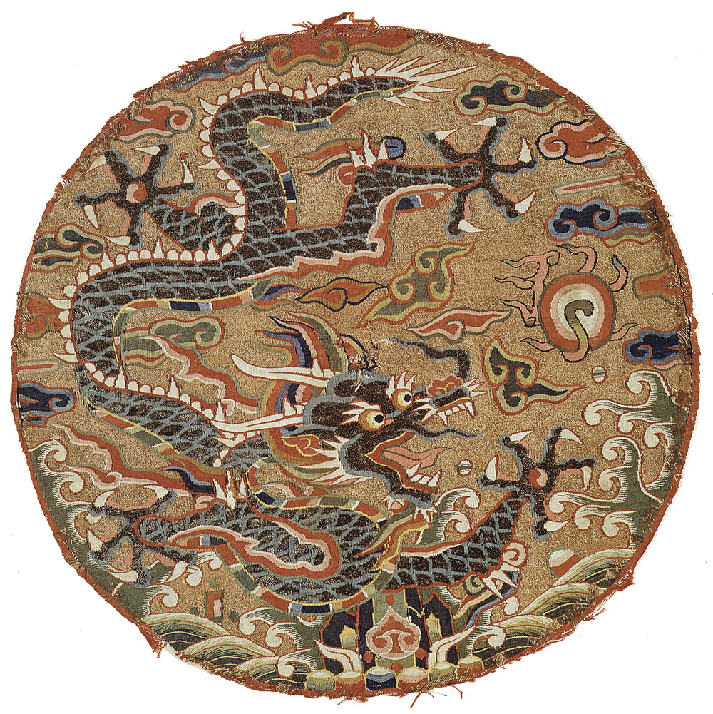 Kesi roundel with five-clawed dragon design, China, late 17th century. Silk, metallic thread and peacock feather slit-tapestry weave, 0.30 x 0.31 m (11¾” x 12½”). Metropolitan Museum of Art, New York, Fletcher Fund, 36.65.32 Native to the Indian subcontinent, the peacock (Pavo cristatus) has long been prized in South Asia and further afield for its brilliant blue-green colouring and showy ocelli tail feathers—around 200 of which make up a mature bird’s train. These are moulted and regrown annually. Occasionally, individual peacock feather barbules were wrapped around thread and woven into 16th- and 17th-century Ottoman and Chinese textiles. Such iridescent thread is used to great effect in this Qing-dynasty (164 4–1911) kesi slit-tapestry where it is perfectly placed, among silk and metal threads, to highlight the scales of a fiercely animated fiveclawed imperial dragon, claws flexed, eyes bulging, teeth bared. Using the interlocking tapestry technique, in a different material and on a larger scale, is a late 19th-early 20th-century dhurrie from north India. Such utilitarian cotton flatweaves were traditionally used by all levels of Indian society as bed covers, prayer mats and floorcovers for rooms, festivals or palaces from at least the 17th century.